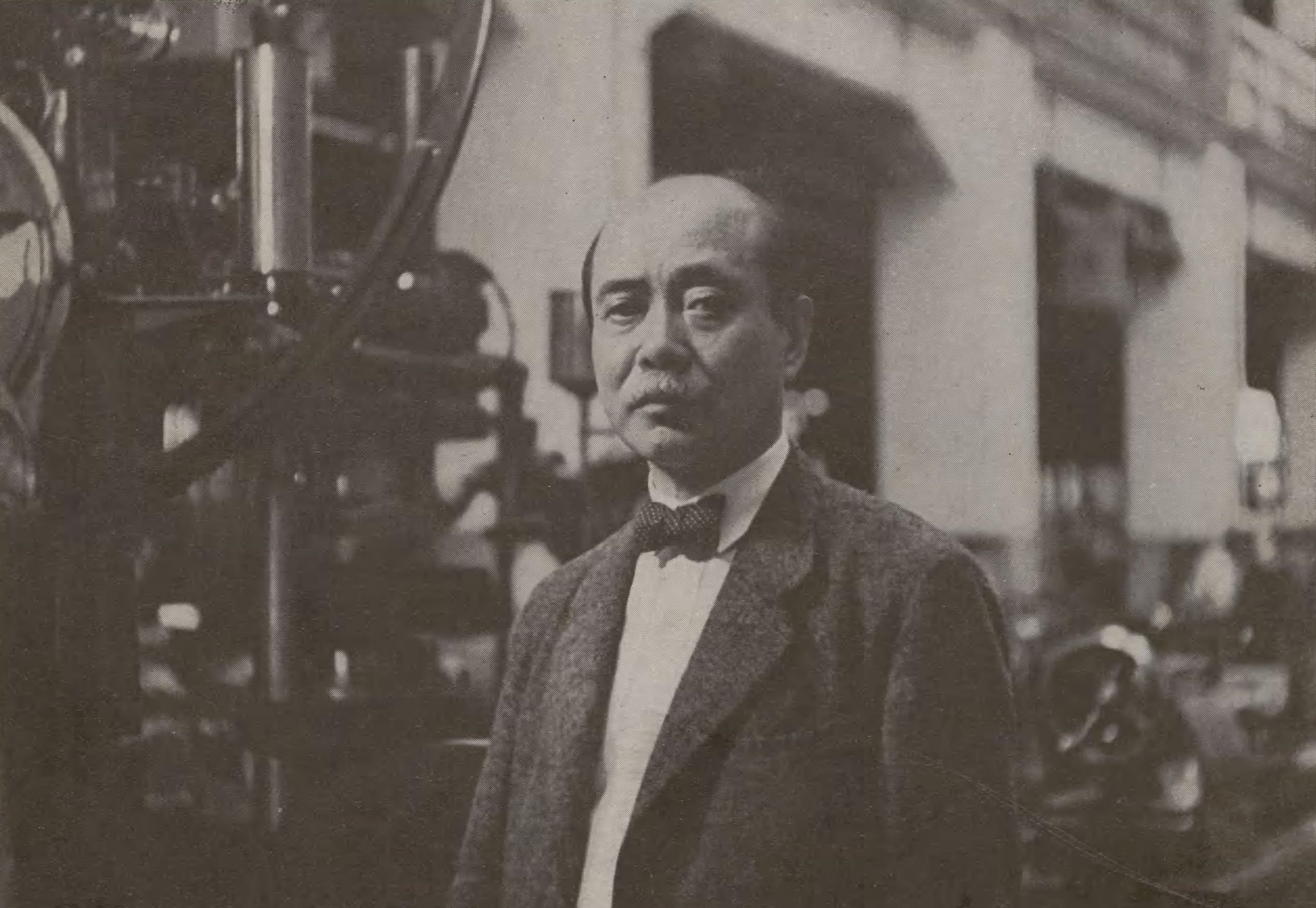 Shimazu Tsunesaburō, a Japanese businessman.